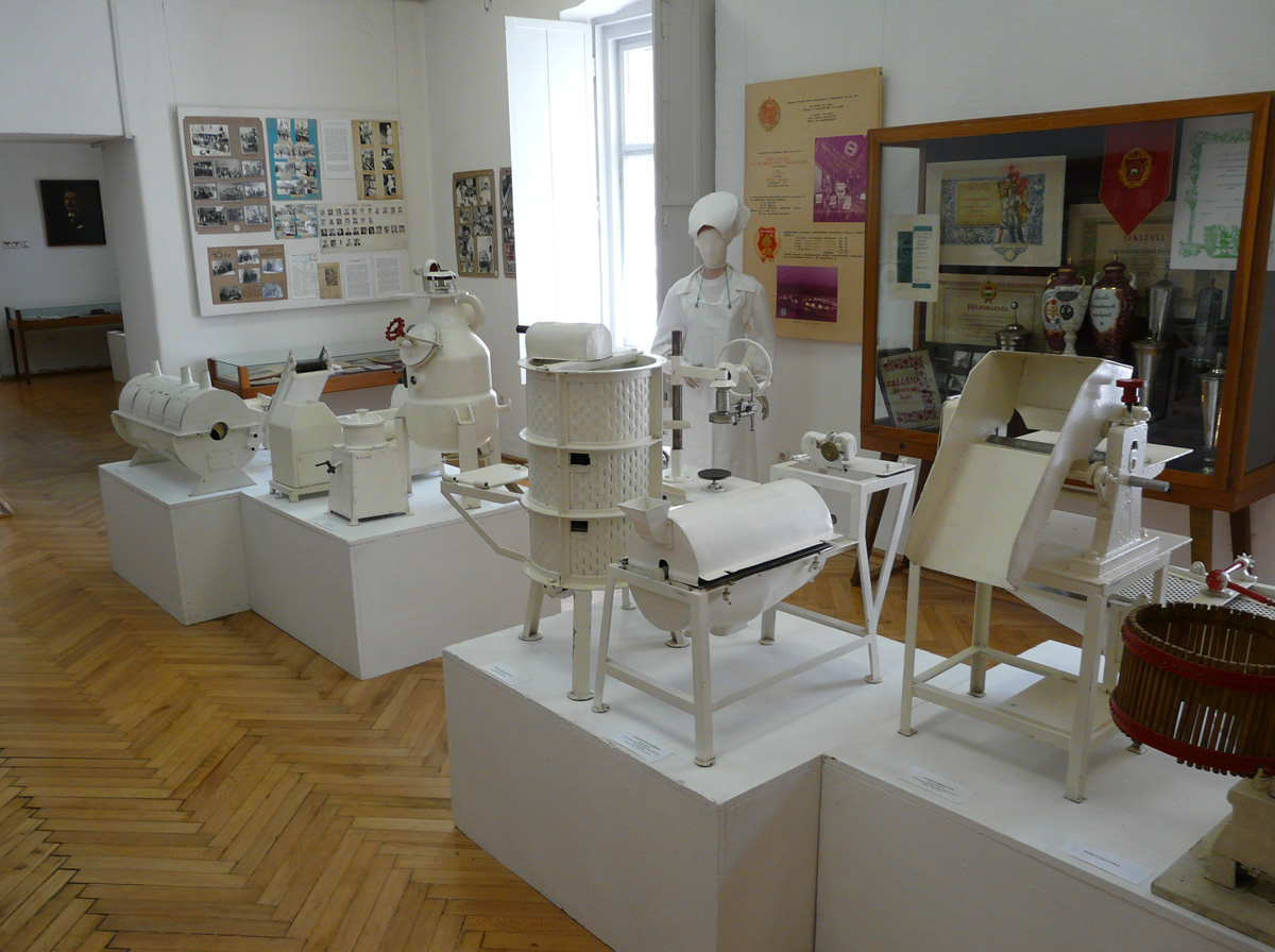 The János Arany Museum in Nagykörös (Hungary)